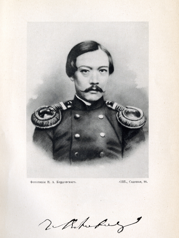 Shokan Valikhanov taken by I. A. Kardovsky